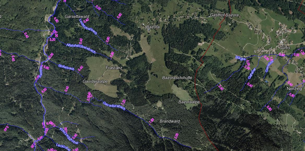 Aerial view of the hamlet Bazora (middle) and of the hamlet Gurtis (Nenzing) and the Gaviduraalpe in Vorarlberg, Austria.